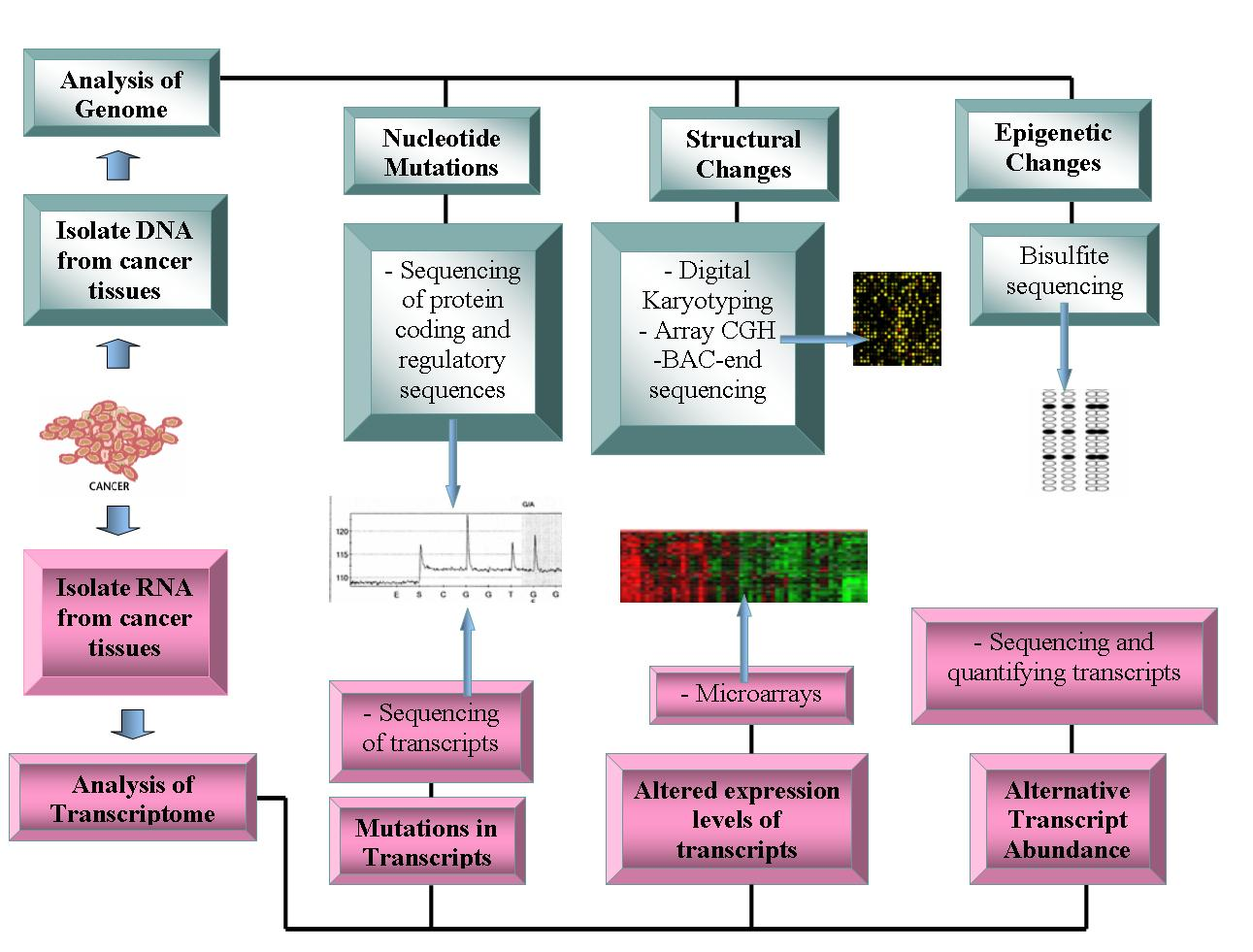 Tiffany Ngai